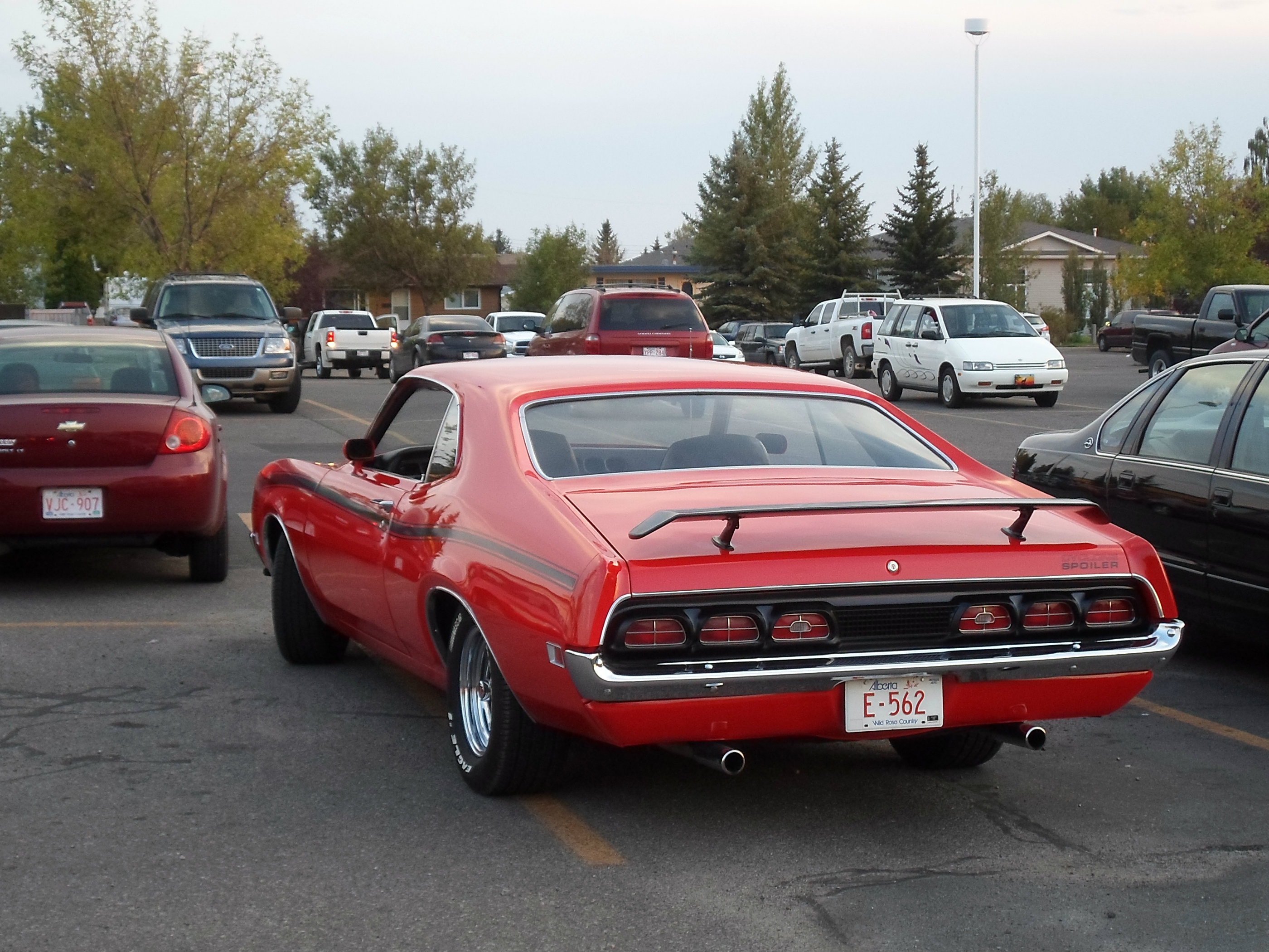 1970 Mercury Cyclone GT